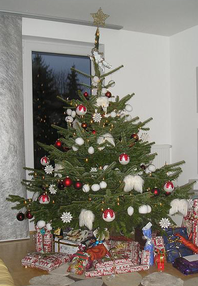 Christmas tree